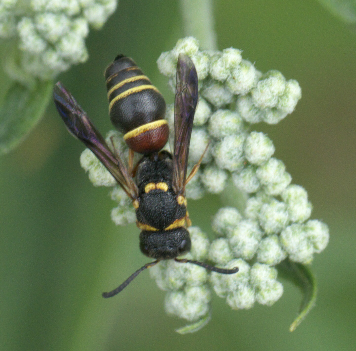 Leptochilus republicanus, Subfamily: Potter and Mason Wasps, Size: 8-9 mm, ID Confidence: 98